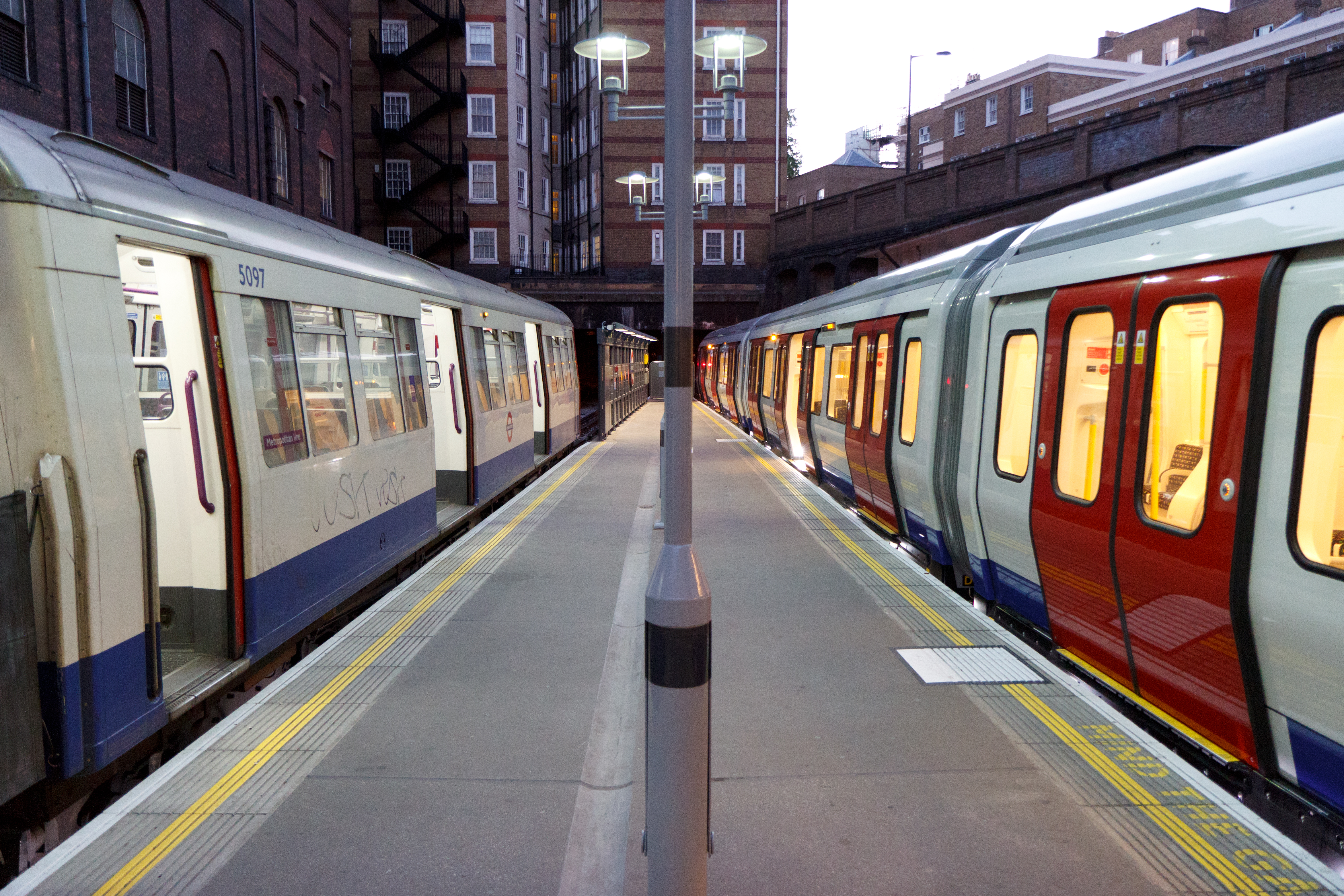 Past and Future